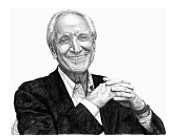 American architect Michael Graves. Drawing by Pablo Riestra.